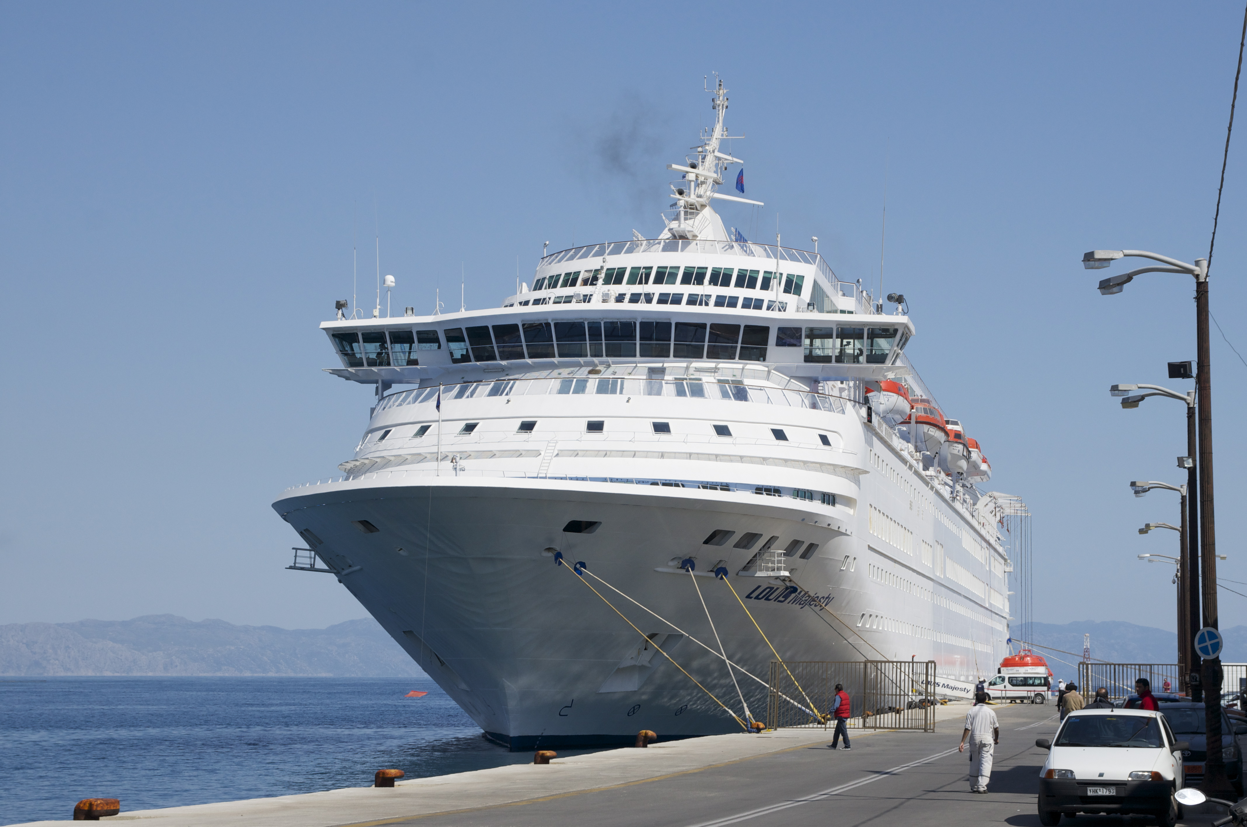 M.S. Louis Majesty (ex Royal Majesty, ex Norwegian Majesty), at dock in the harbour of Rhodes, Island of Rhodes, Greece. in background, the turkish coast.